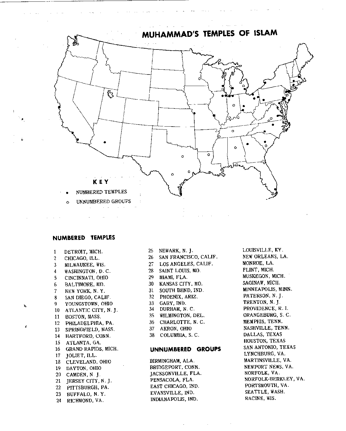 Page from 1960 FBI primer on Nation of Islam This image or file is a work of a Federal Bureau of Investigation employee, taken or made as part of that person's official duties. As a work of the U.S. federal government, the image is in the public domain.